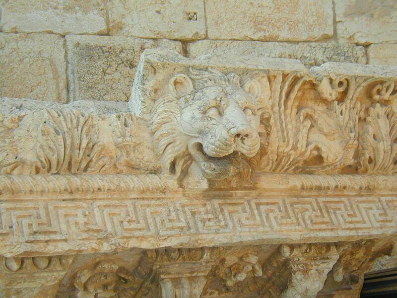 Baalbek - Jupiter temple